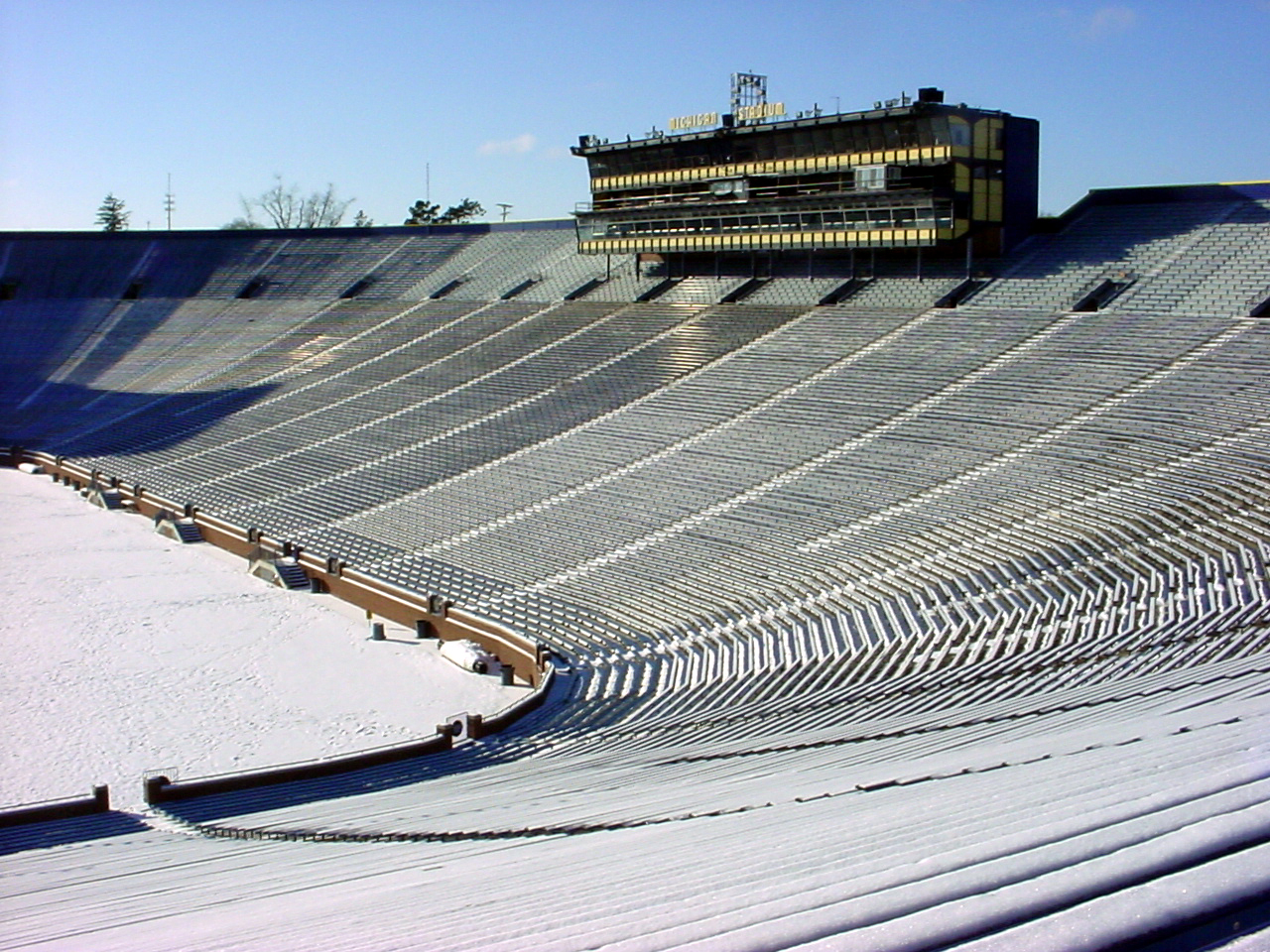 I took this picture the day the Olympic torch came through Ann Arbor in 2002. 12:14, 27 September 2006 . . Terryfoster . . 1280×960 (996,835 bytes)